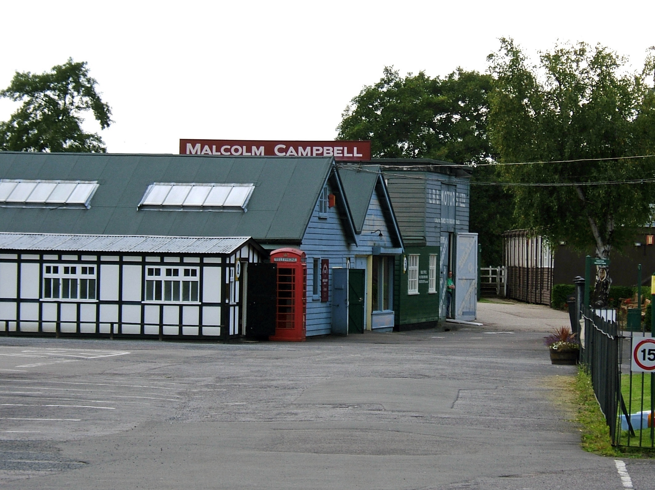 The "sheds" at Brooklands motor racing circuit, Surrey, UK. From left to right: the Press Hut (black and white); the Malcolm Campbell Shed (pale blue), where Campbell developed some of the Blue Bird land-speed record breakers; the ERA Shed (pale green).